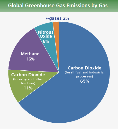 Distribution of global greenhouse gas emissions based on type of greenhouse gas